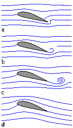 In the transition of a potential flow without circulation (a) into one with circulation (d) a starting vortex seperates, the pressure below the airwing increases and decreases above, the velocity vice versa